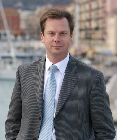 Jérôme Rivière